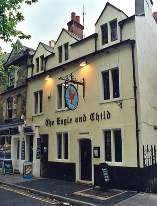 Picture of the facade of the Eagle and Child pub, en Oxford (England), where the Inklings met (1930-1950).